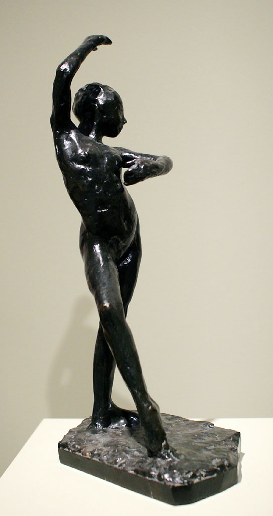 The Spanish Dance, bronze, dimensions--46.3 x 14.3 cm, more information from Ackland Art Museum